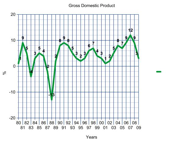 Crecimiento de Panamá 1980 - 2008